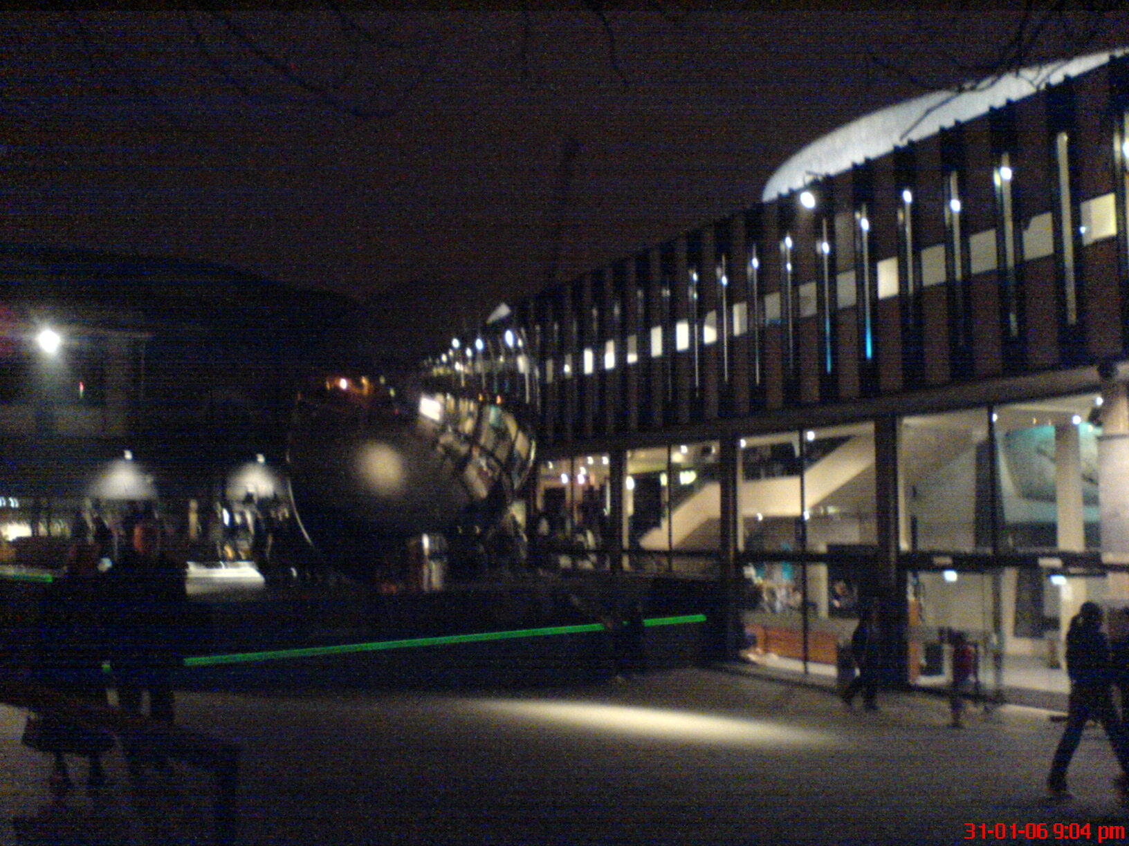 Nottingham Playhouse at night from Wellington Circus